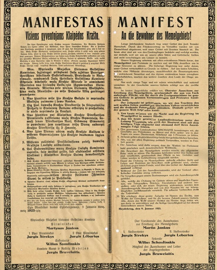 Bilingual manifest of the Supreme Committee for the Salvation of Lithuania Minor. The committee proclaimed itself the only governing power in the Klaipėda region, dissolved pro-German Directory, and authorized Simonaitis to form a new Directory within 3 days.